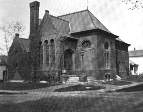 Public library, Massachusetts